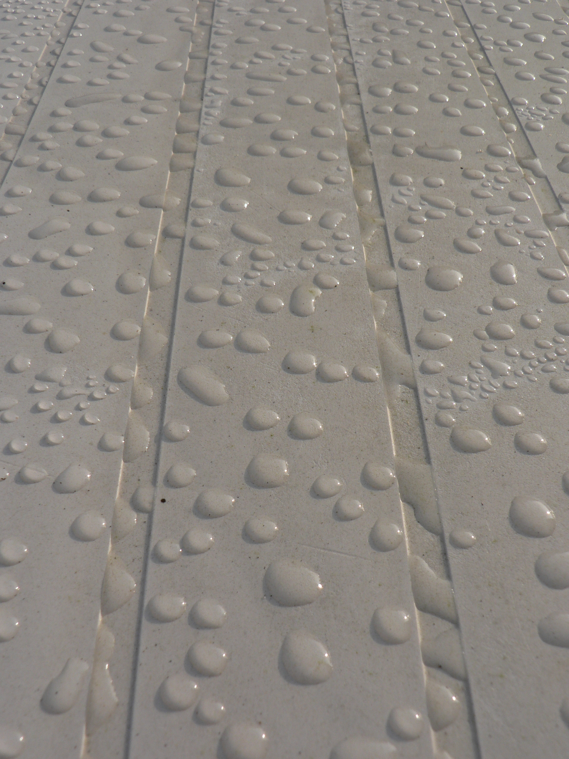 water drops on hydrophobic plastic garden table